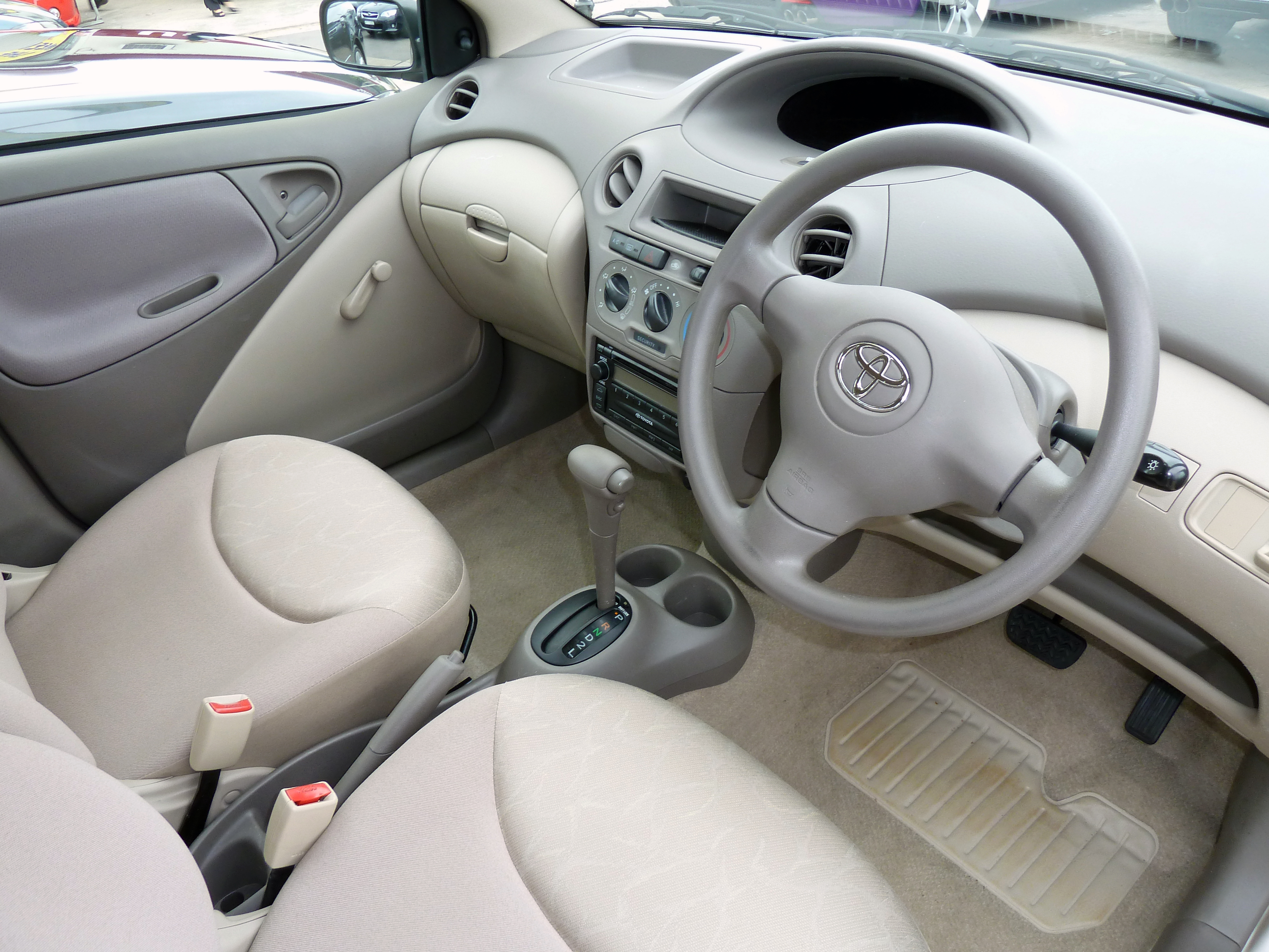 2004 Toyota Echo (NCP12R) sedan. Photographed at Suttons Holden, Chullora, New South Wales, Australia.